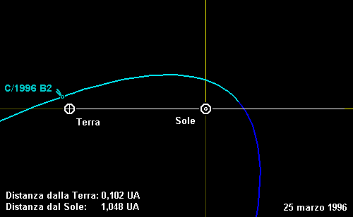 Part of the orbit of the comet C/1996 B2 (Hyakutake). In the picture, Comet Hyakutake is represented in the point of maximun approach to the Earth, on 1996, Martch 25th. Comet Sun distance and Earth distance are reported.